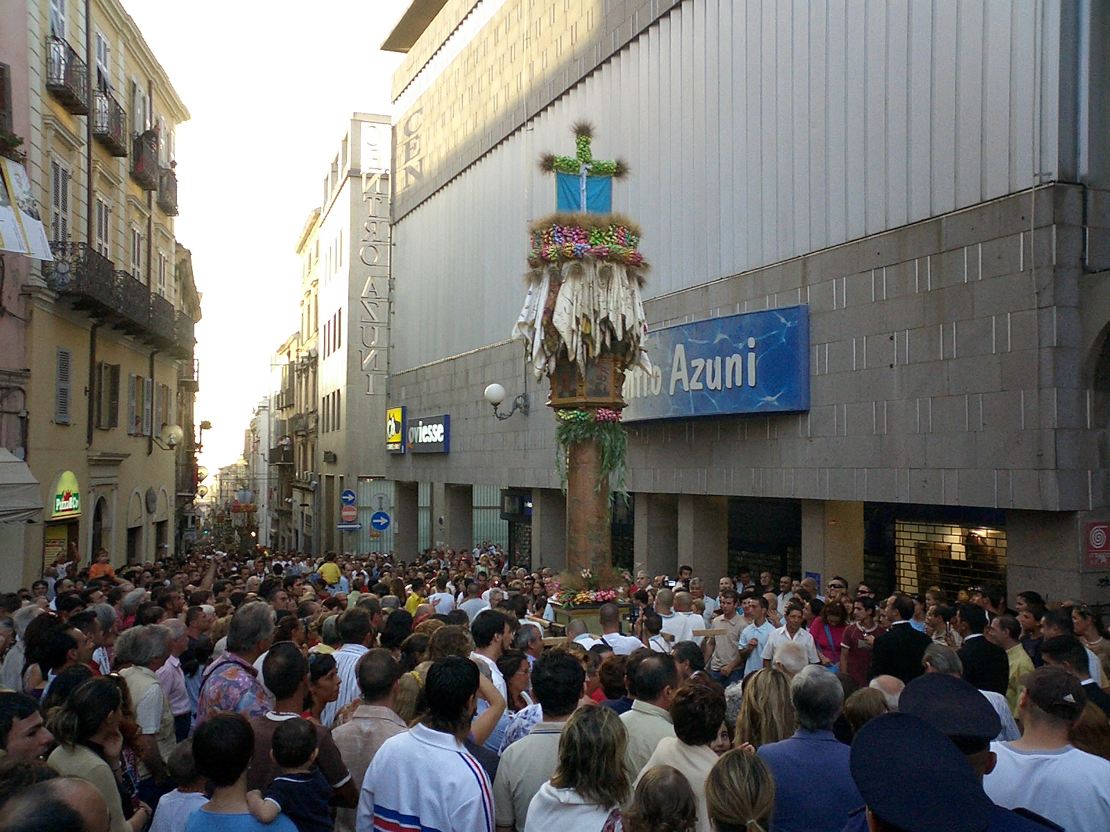 Faradda di li Candareri - Sassari , Sardinia piazza Azuni